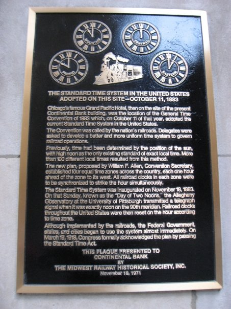 Chicago, IL - USA. Taken while on vacation visiting my brother in the windy city.